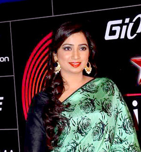 Playback Singer Shreya Ghoshal at 4th Gionnee Star Global Indian Music Academy Awards